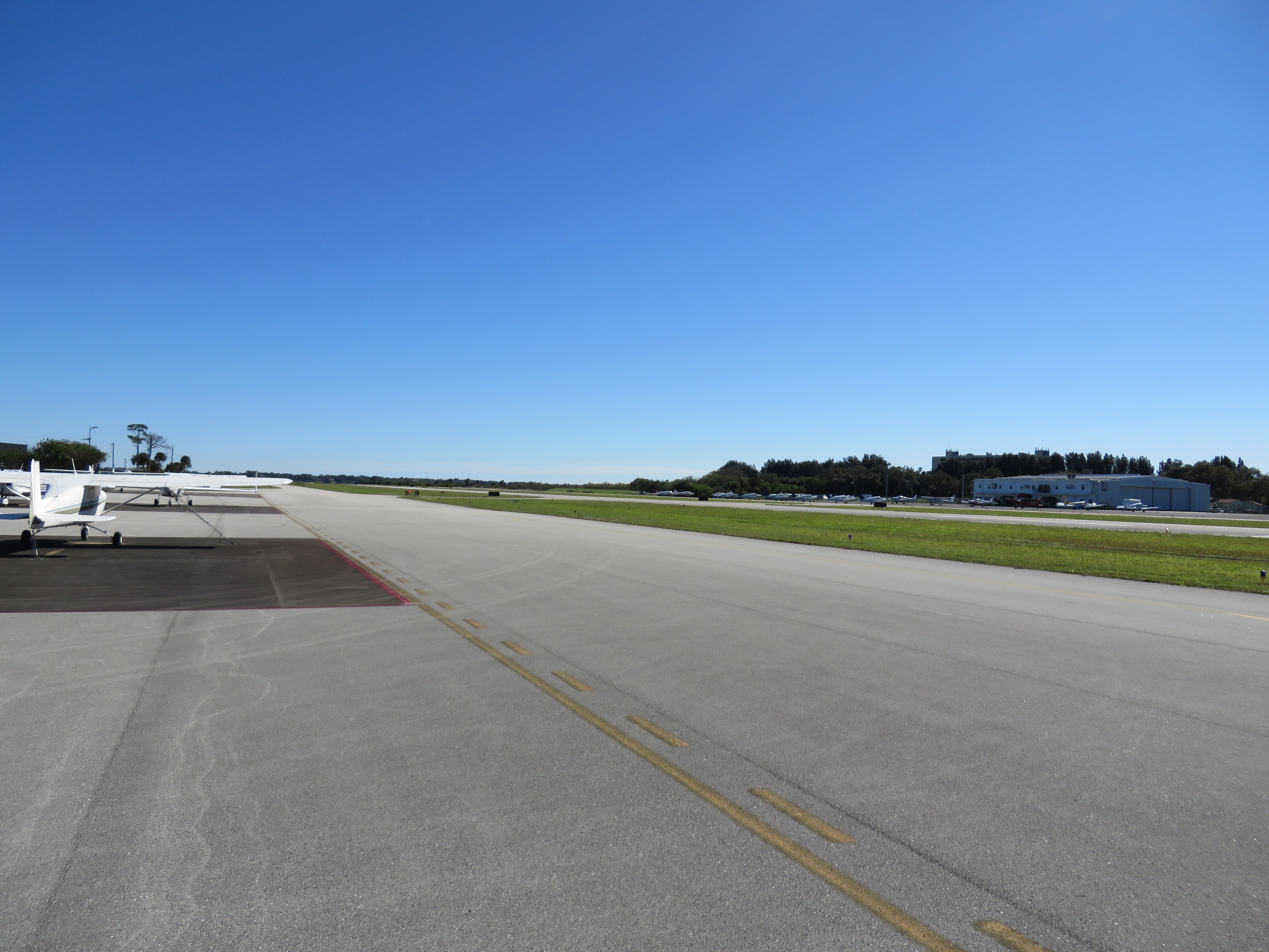 Merritt Island Airport, 900 Airport Road, Merritt Island, Florida.